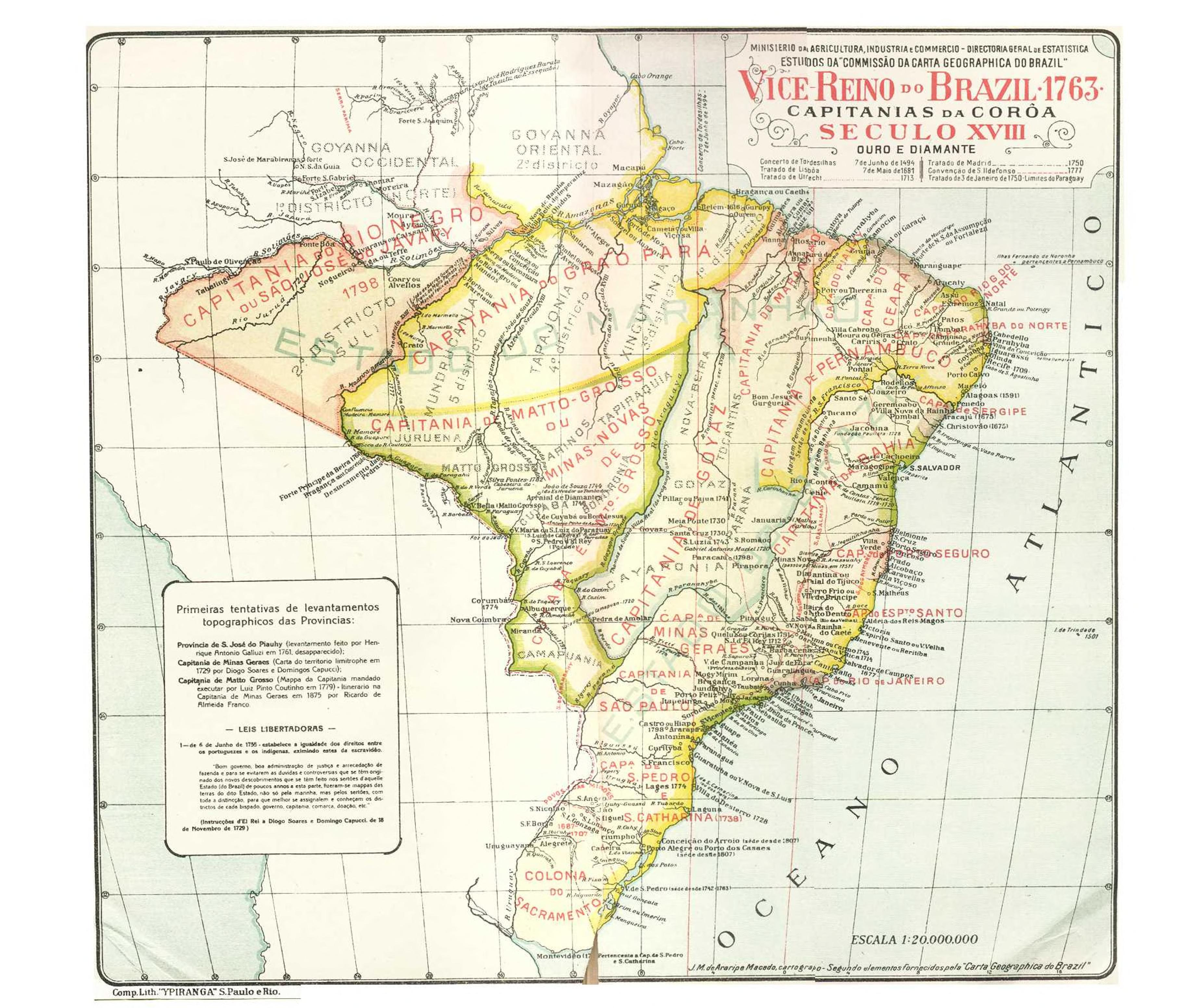 Viceroyalty of Brazil, 1763.